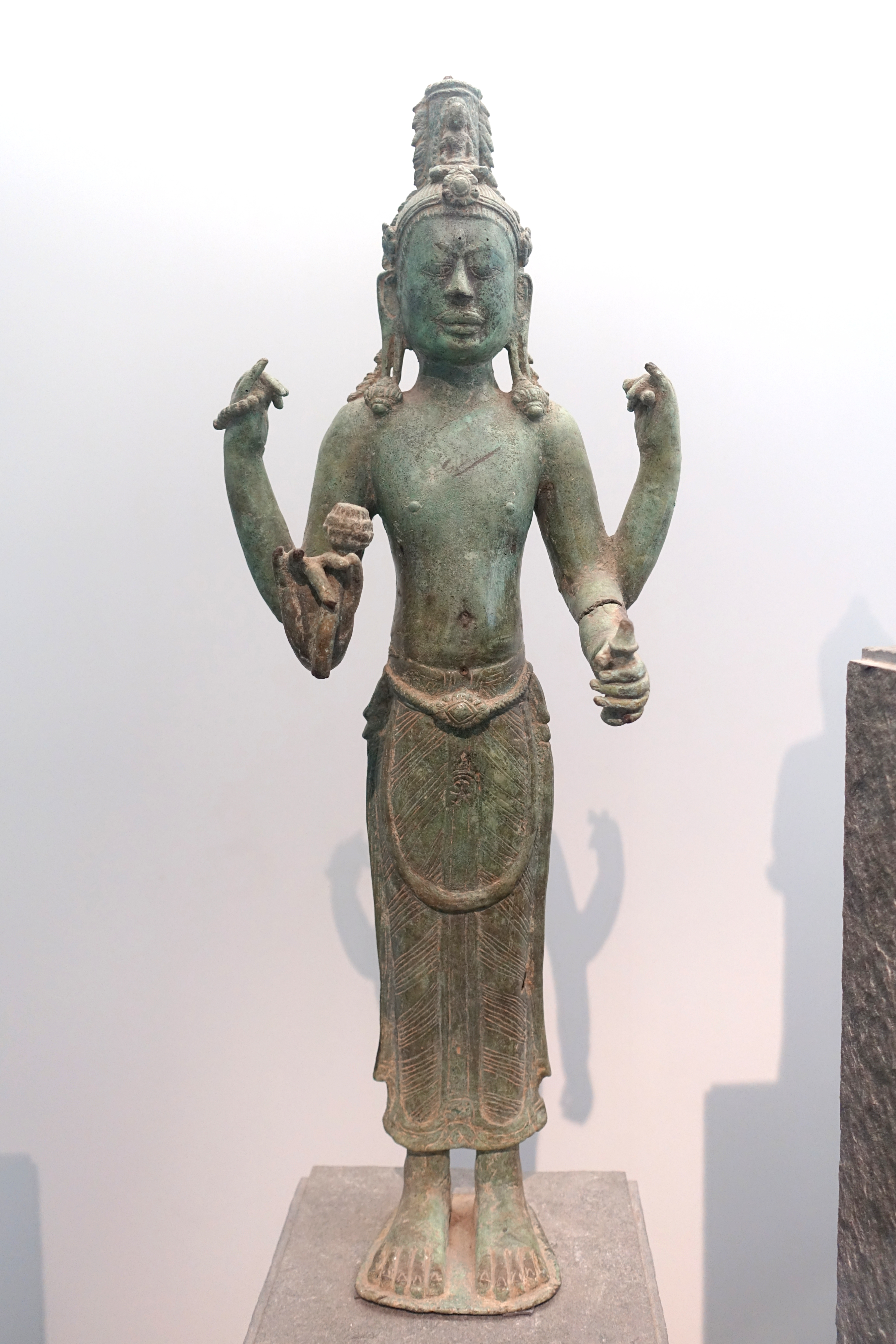 Exhibit in room 6 “Champa Culture (2-17c)” in the Museum of Vietnamese History, Ho Chi Minh City, Vietnam. This work is old enough so that it is in the public domain. Hoài Nhơn, Bình Định